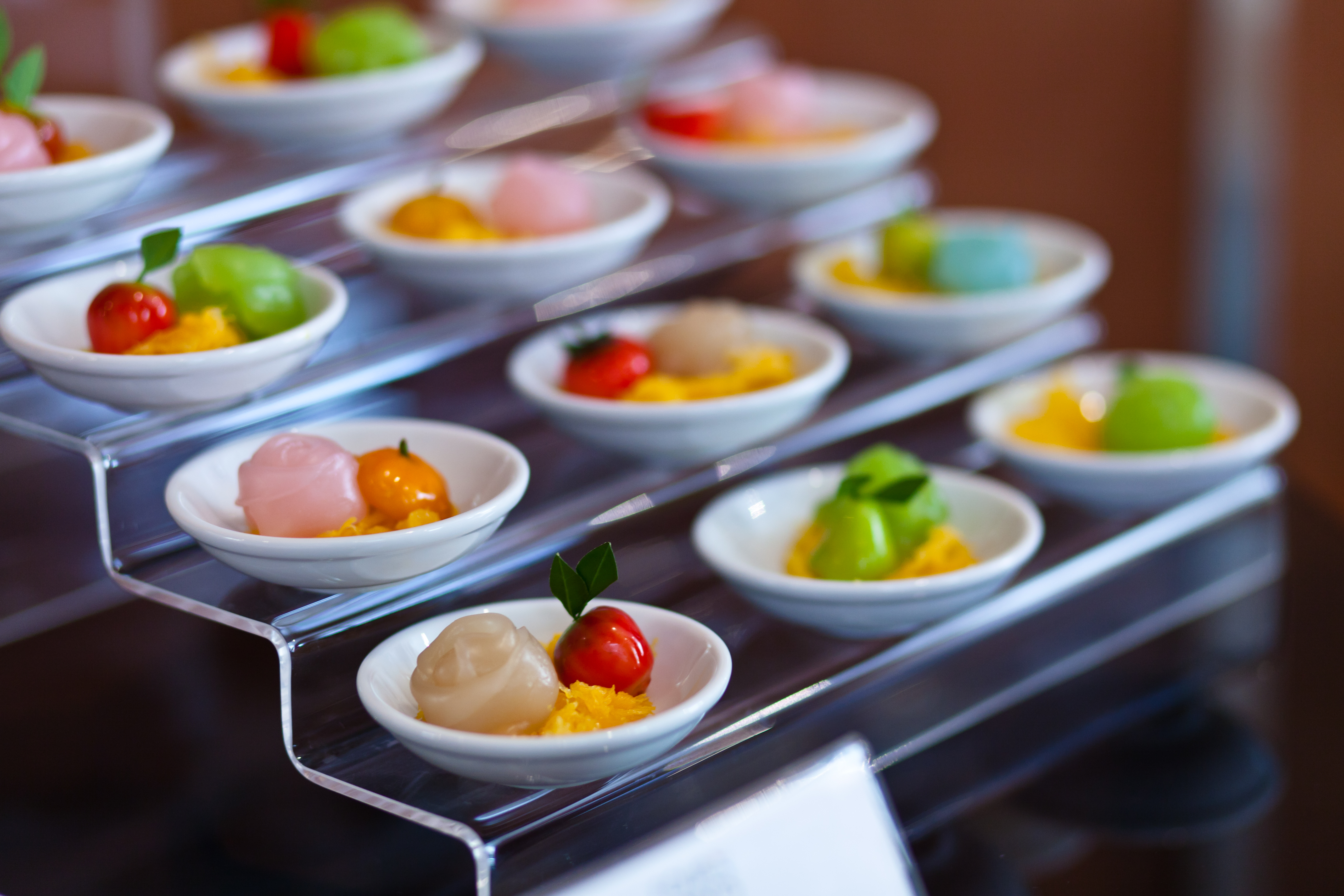 Assorted miniature Thai desserts at the Four Point Hotel, Bangkok, Thailand